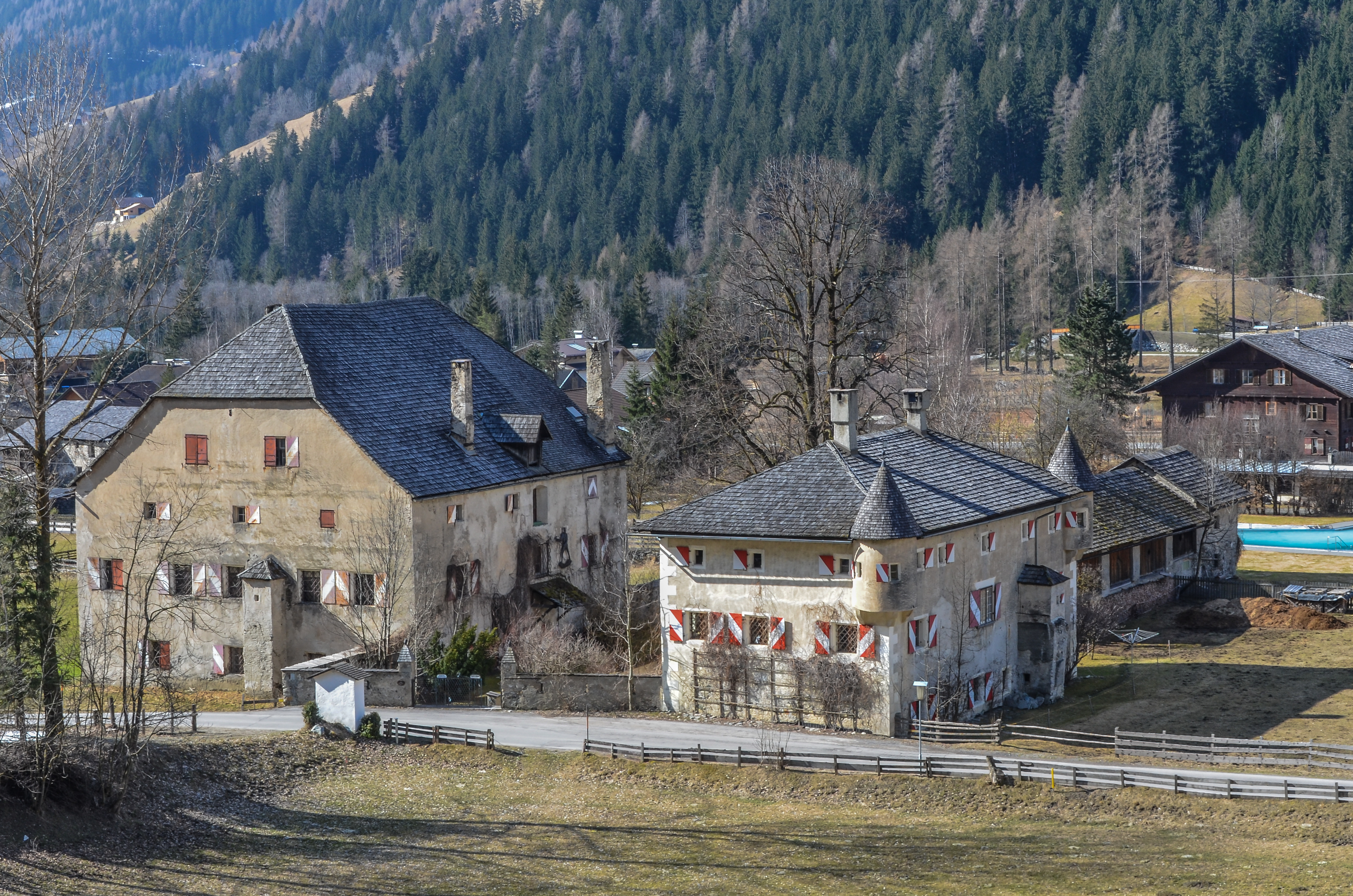 Castle in Doellach #36 and brewery in Döllach #37, municipality Grosskirchheim, district Spittal an der Drau, Carinthia, Austria, EU